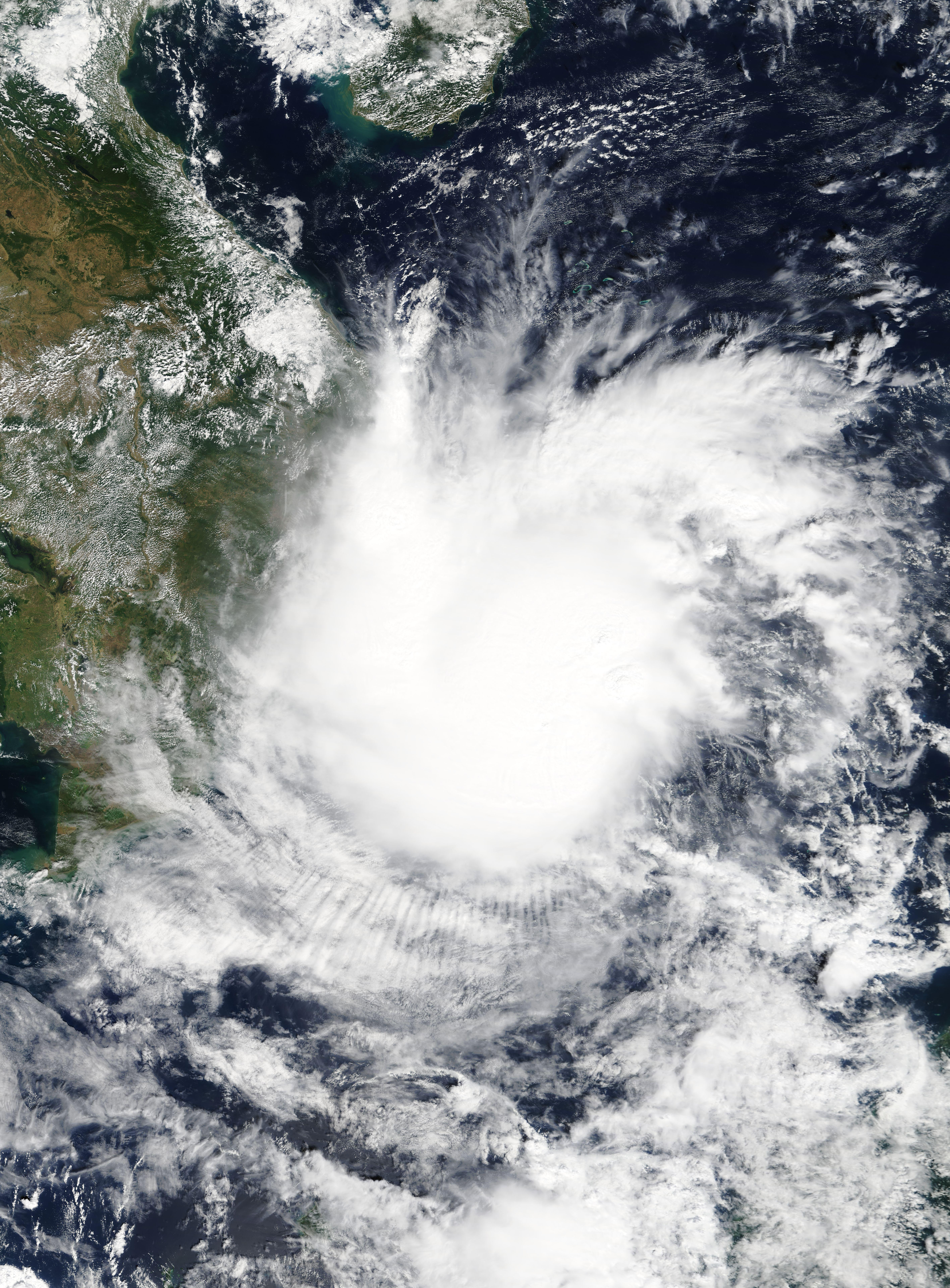 Tropical Storm Toraji nearing landfall in Vietnam on November 17, 2018.